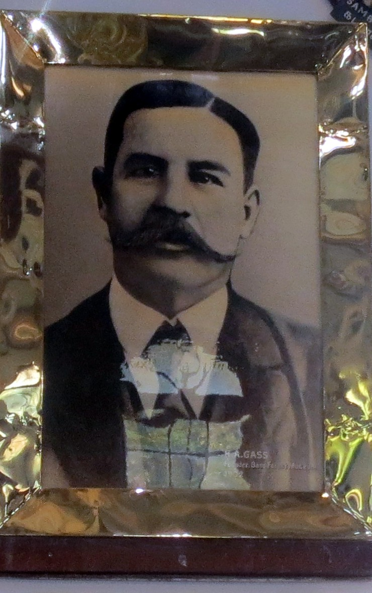 Photo of Gass, the establisher of Gass Forest Museum. Location: Gass Forest Museum, Coimbatore, Tamil Nadu, India.